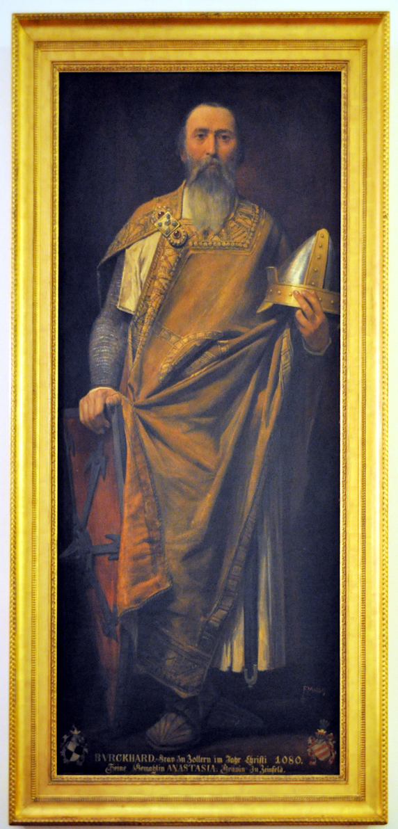 Burckhard I, Grav zu Zollern, 1080 AD - Hohenzollern dinasty